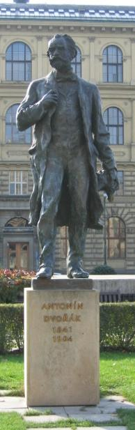 Statue of Antonín Dvořák in front of Rudolfinum in Prague, Czech Republic.